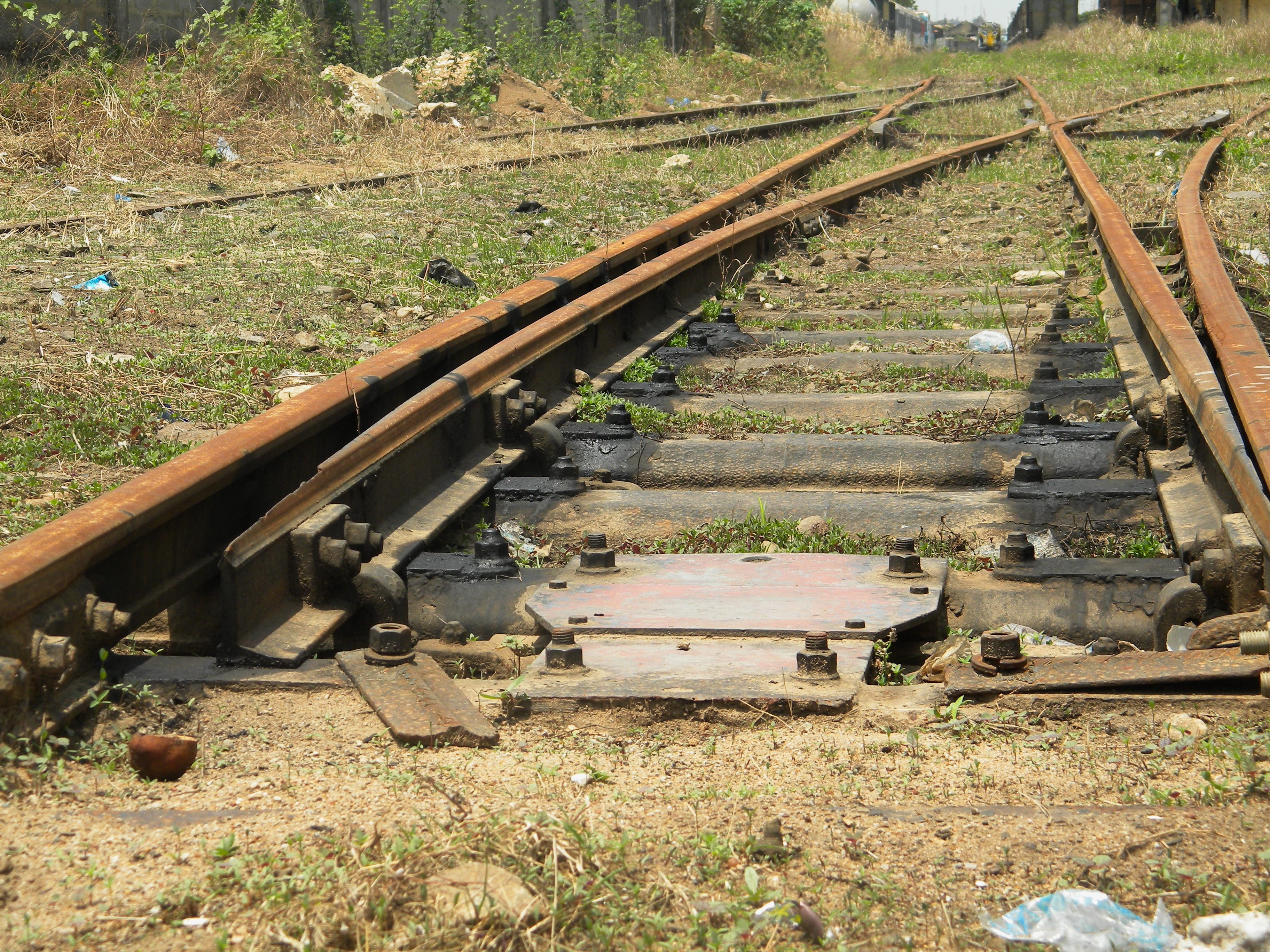 This is an image with the theme "Africa on the Move or Transport" from: Benin